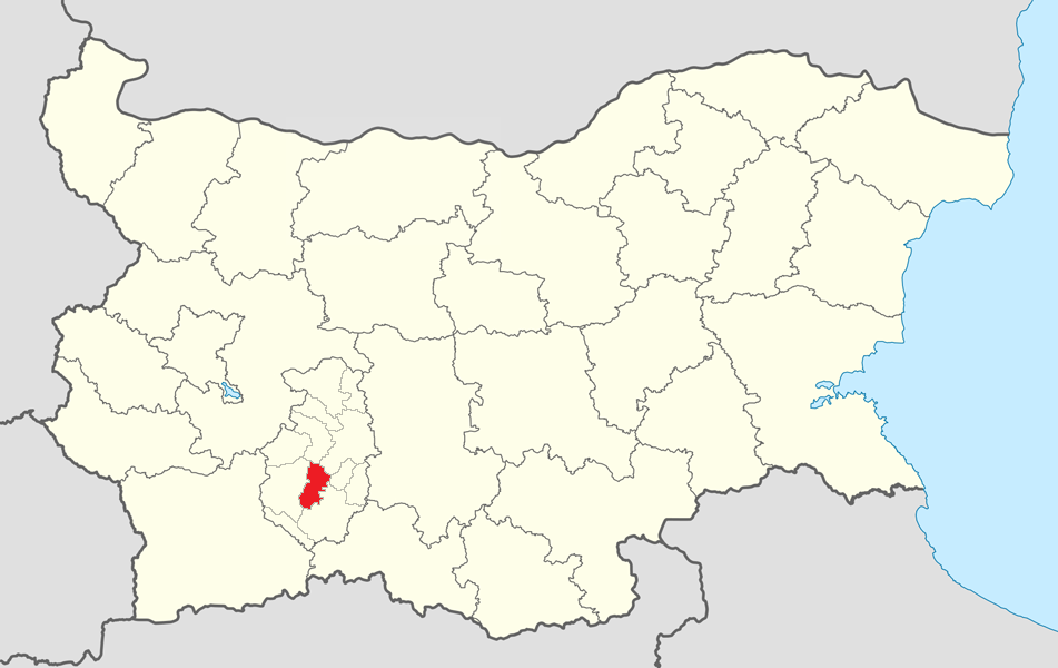 Location map of Rakitovo Municipality within Bulgaria and Pazardzik province